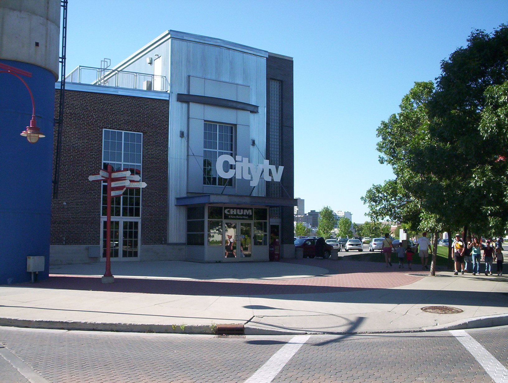 I (Bryan Wittal) took this photo of the CHMI Studio in Winnipeg, Manitoba in August 2005.